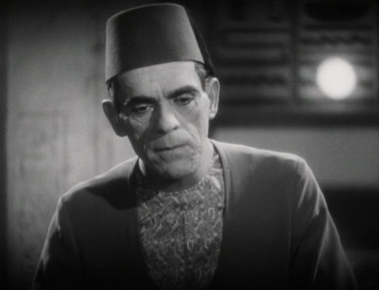 A trailer screenshot from The Mummy (1932).